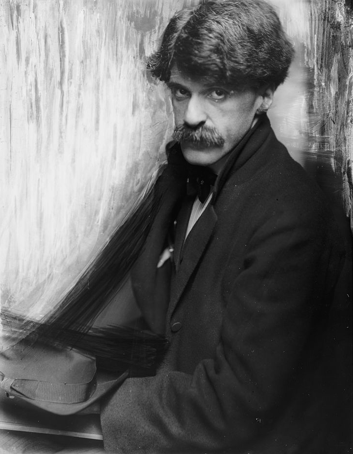 Alfred Stieglitz in 1902). This image has been flopped from the original.